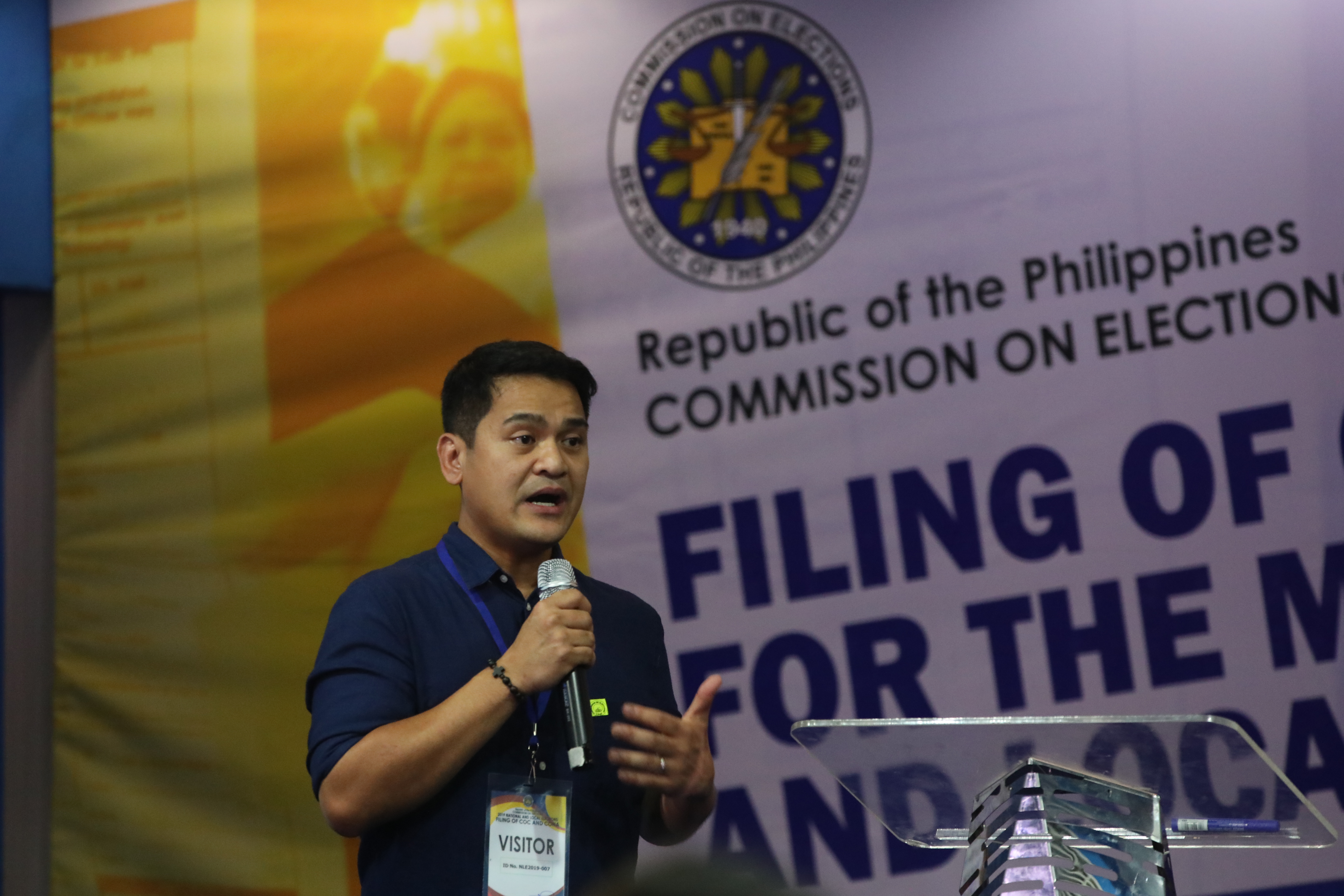 Veteran broadcast journalist Jiggy Manicad formally files his Certificate of Candidacy for senator before the Commission on Elections main office on Wednesday (Oct. 17, 2018). Manicad is running as an independent candidate. (PNA photo by Avito C. Dalan)